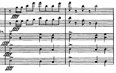 fragment of Tchaikovsky 1812 overture